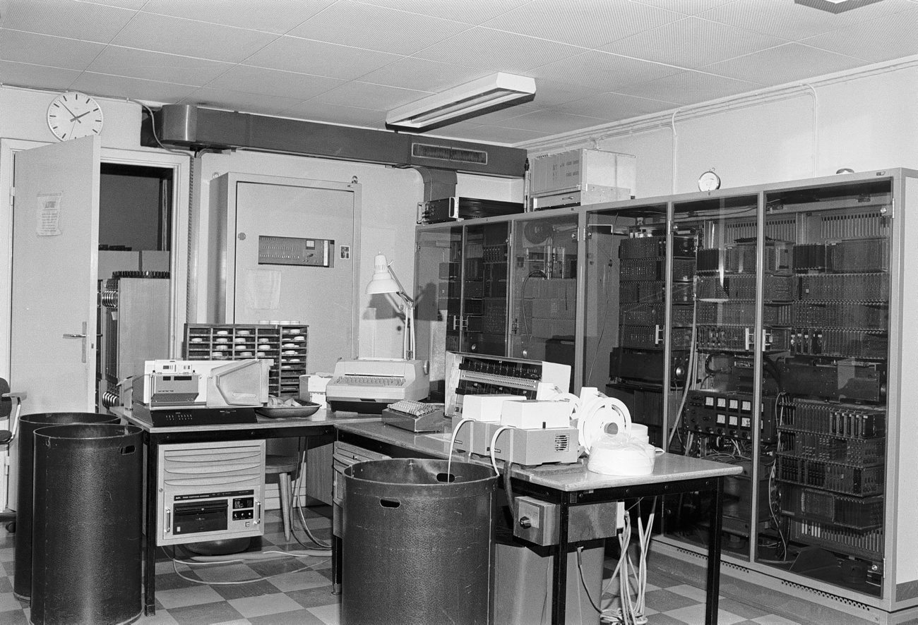 Solid state computer, named TRASK. Sweden, 1965.